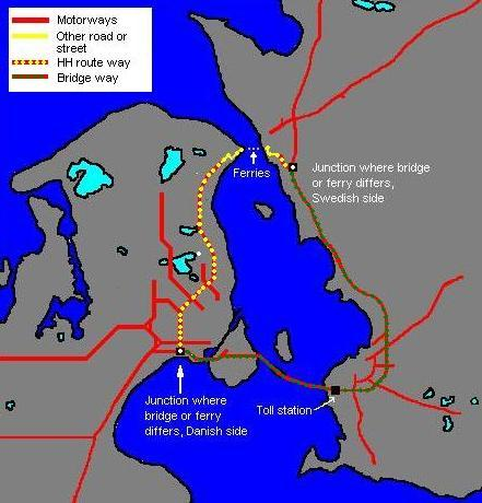 Improved version, usage "HH Ferry route"